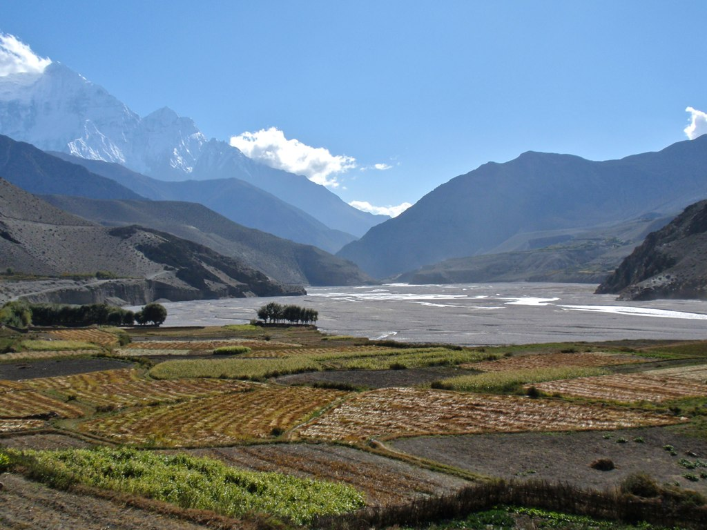 Agriculture in Kagbeni, Nepal on the banks of Gandaki River, a tributary of RIver Ganges